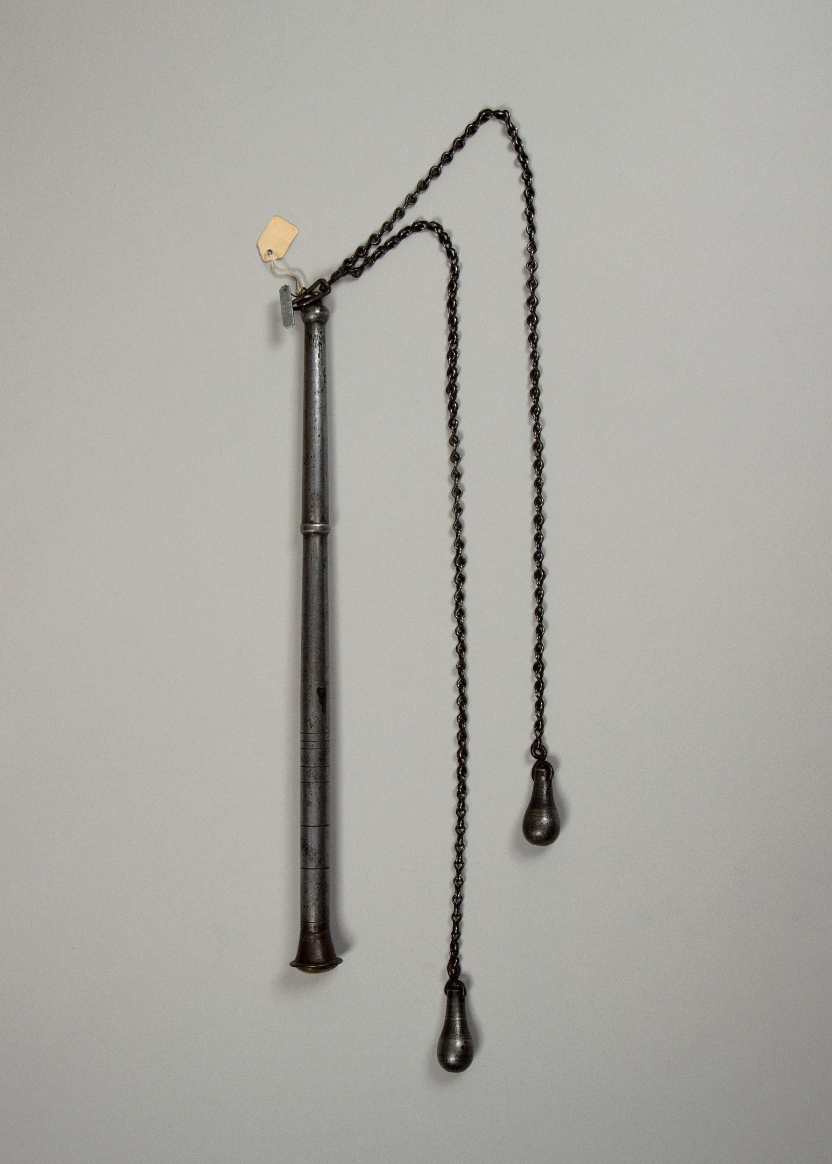 Flail. 18th century. Indian. Iron, brass. H. 40 1/2 in. (102.9 cm); H. of handle 16 in. (40.6 cm); W. 1 in. (2.5); Wt. 1 lb. 15.7 oz. (898.7 g).